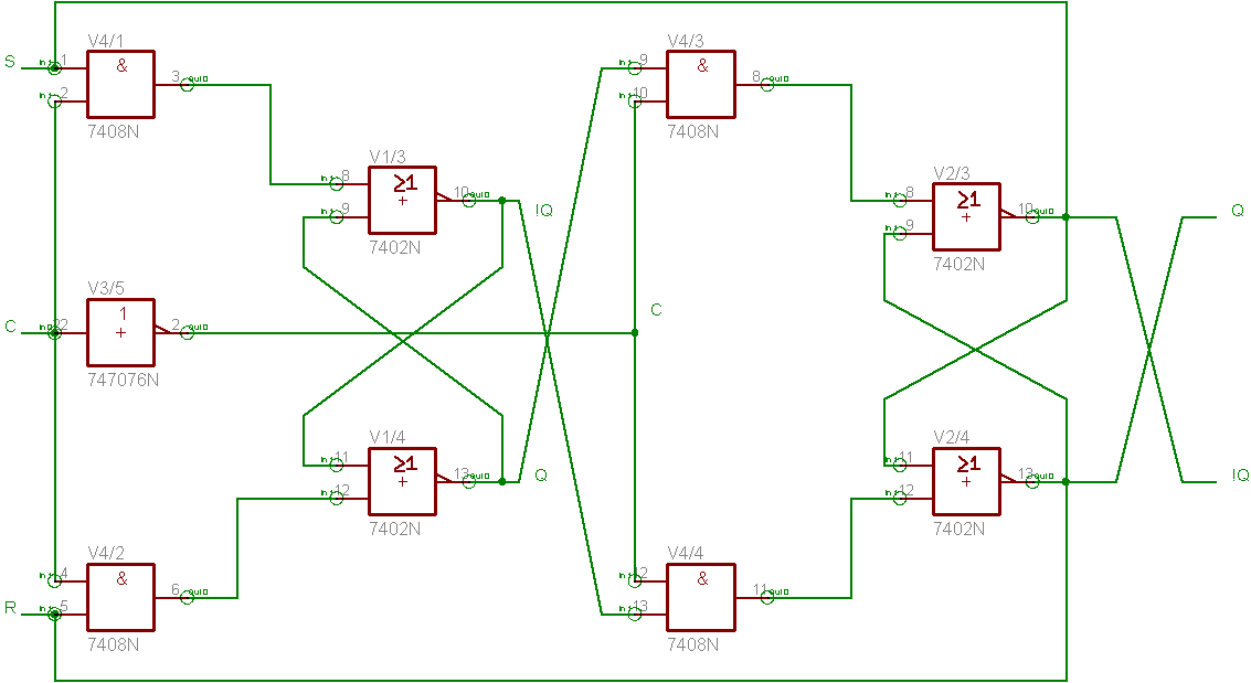 Frequency divider 2:1 (Created with Eagle)